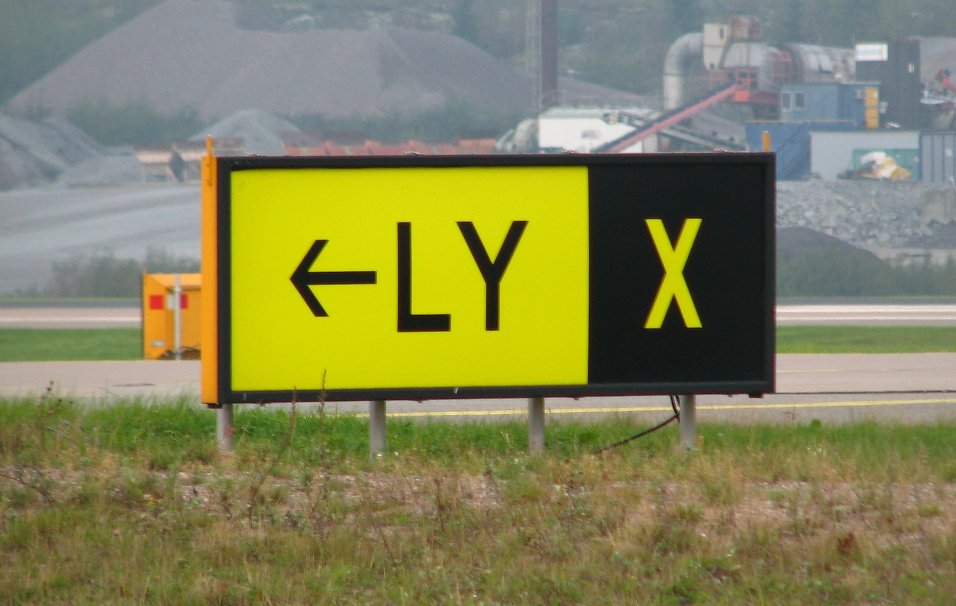 A taxiway sign at Arlanda Airport.